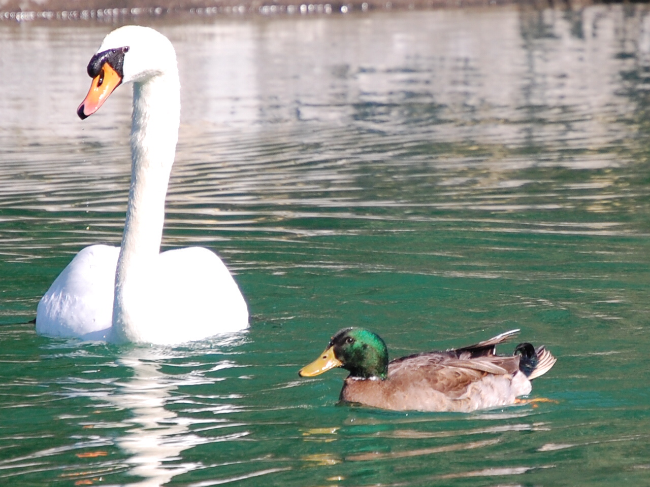 Mute Swan (Cygnus olor) and domesticated Mallard (Anas platyrhynchos)